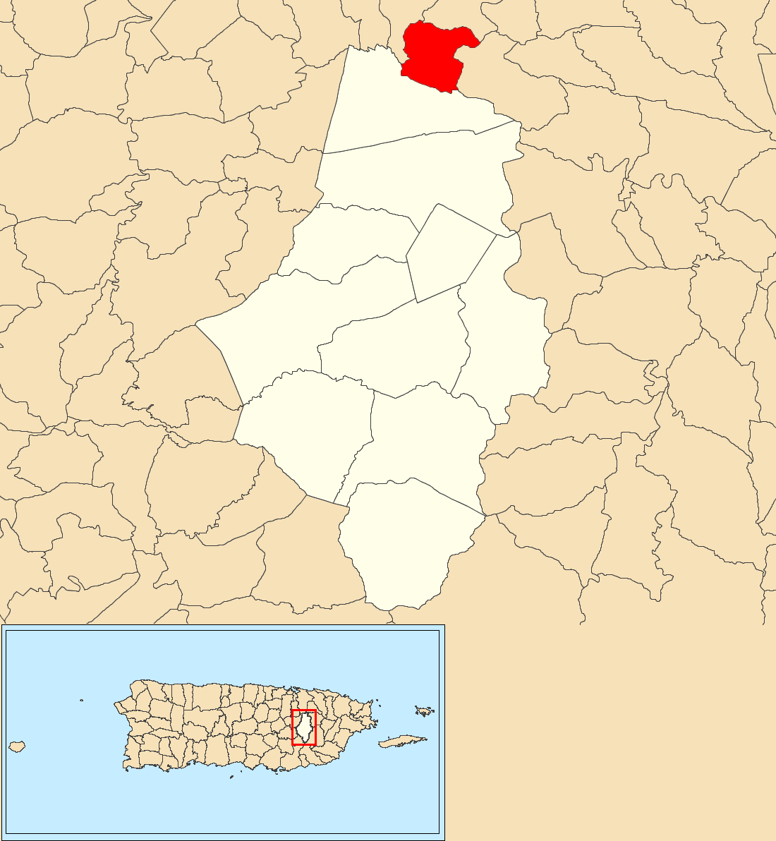 Río Cañas, Caguas, Puerto Rico locator map